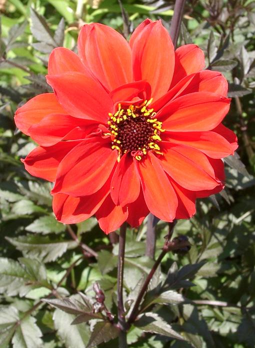 Dahlia "Bishop of Llandaff". Provided by User:Ramin Nakisa on 8 Mar 2003.